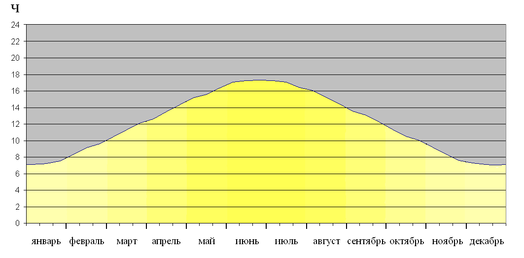 Day light, hours in Moscow